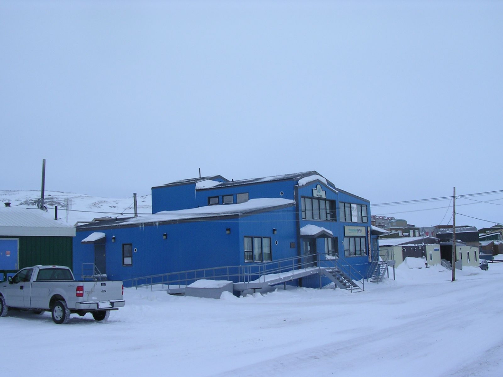 Nunatsiaq News - Nunavut Tourism - Ayaya Communications Offices